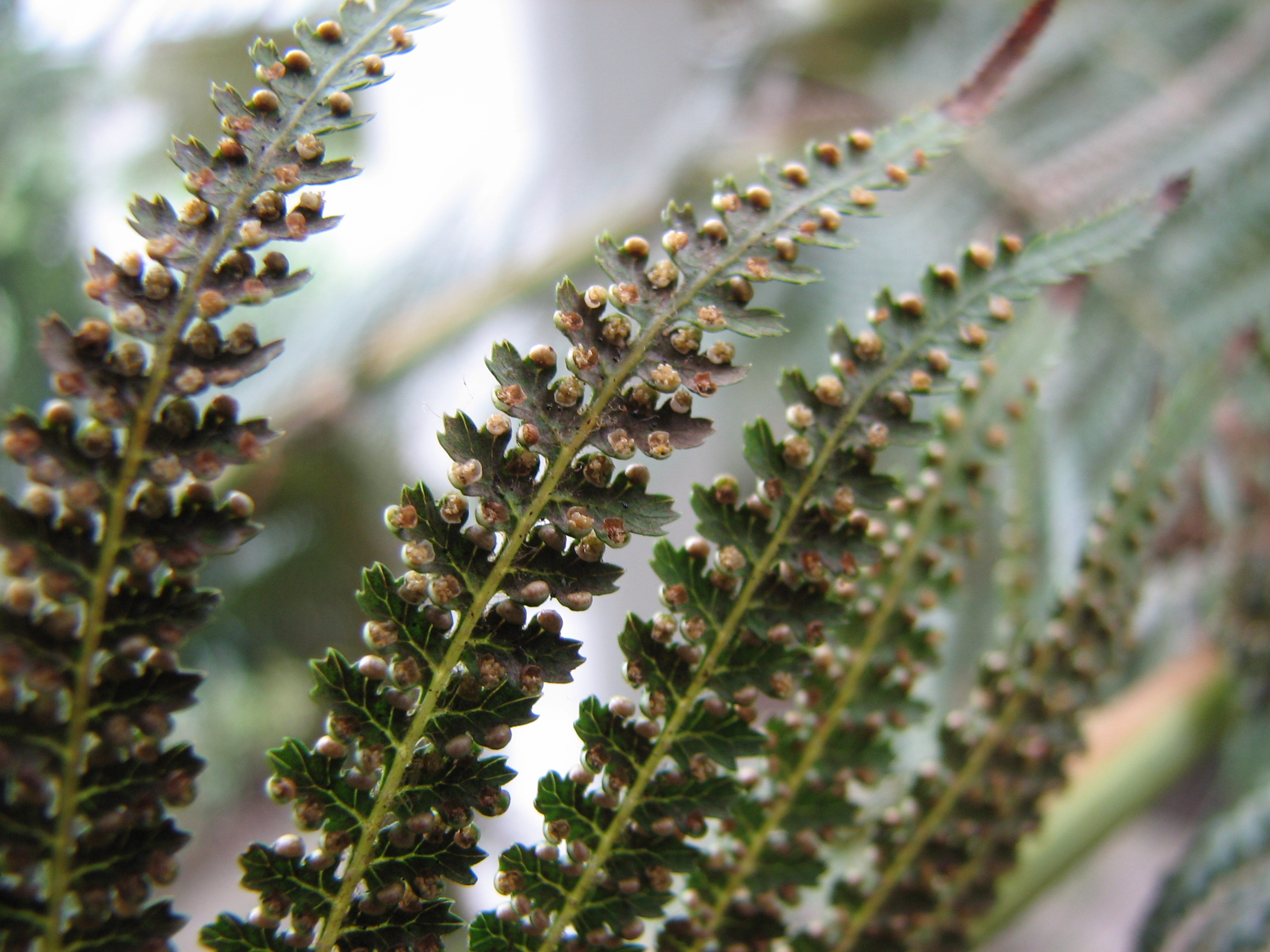 Dicksonia antarctica Labill. (Soft Tree Fern). Sori details. Taken at Palm House, Kew Gardens, (London, UK)